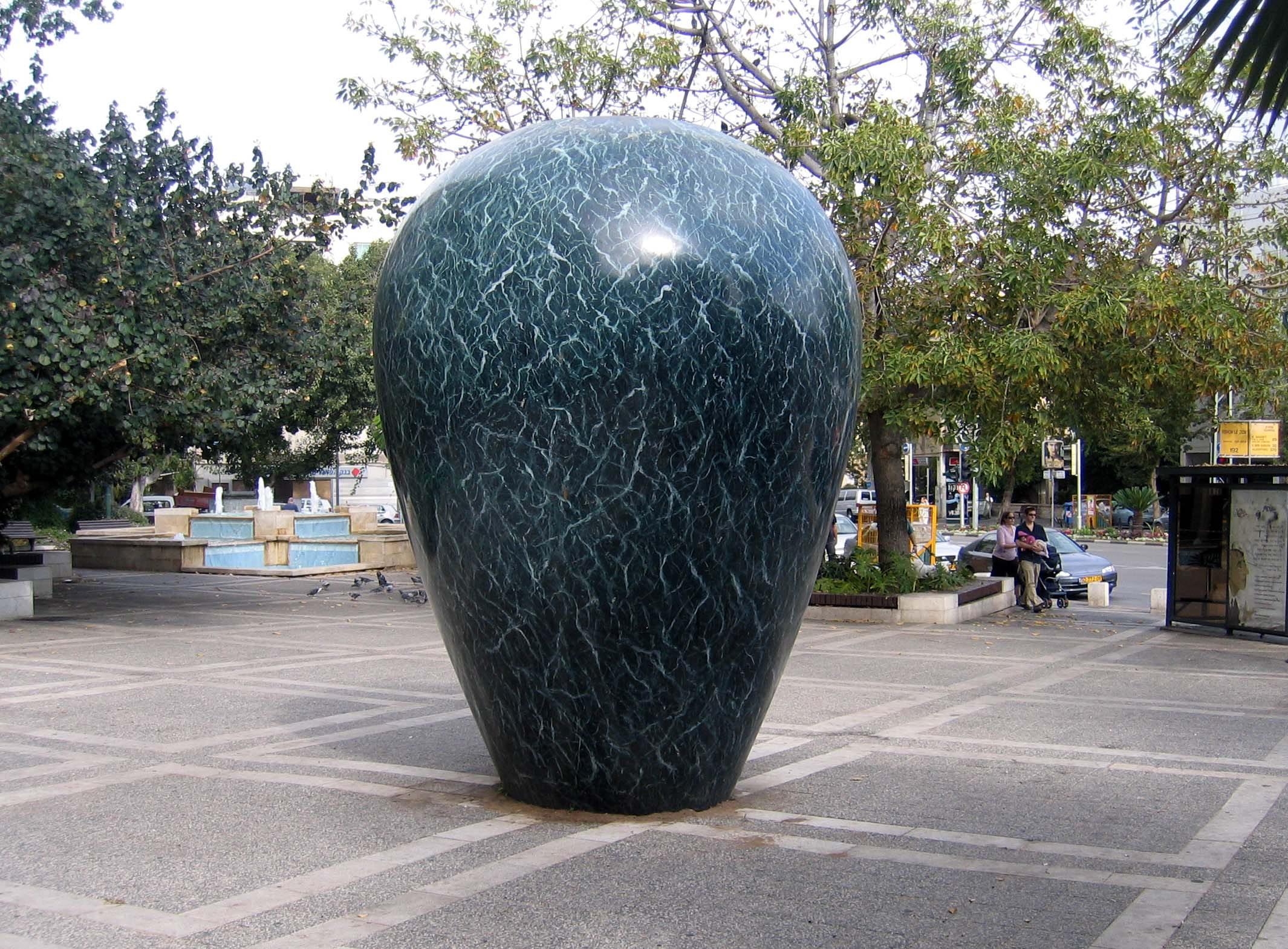 Vase (1992) by Gideon Gechtman. Fiberglass and Paint. Ibn Gabirol Street, Tel Aviv-Yaffo.